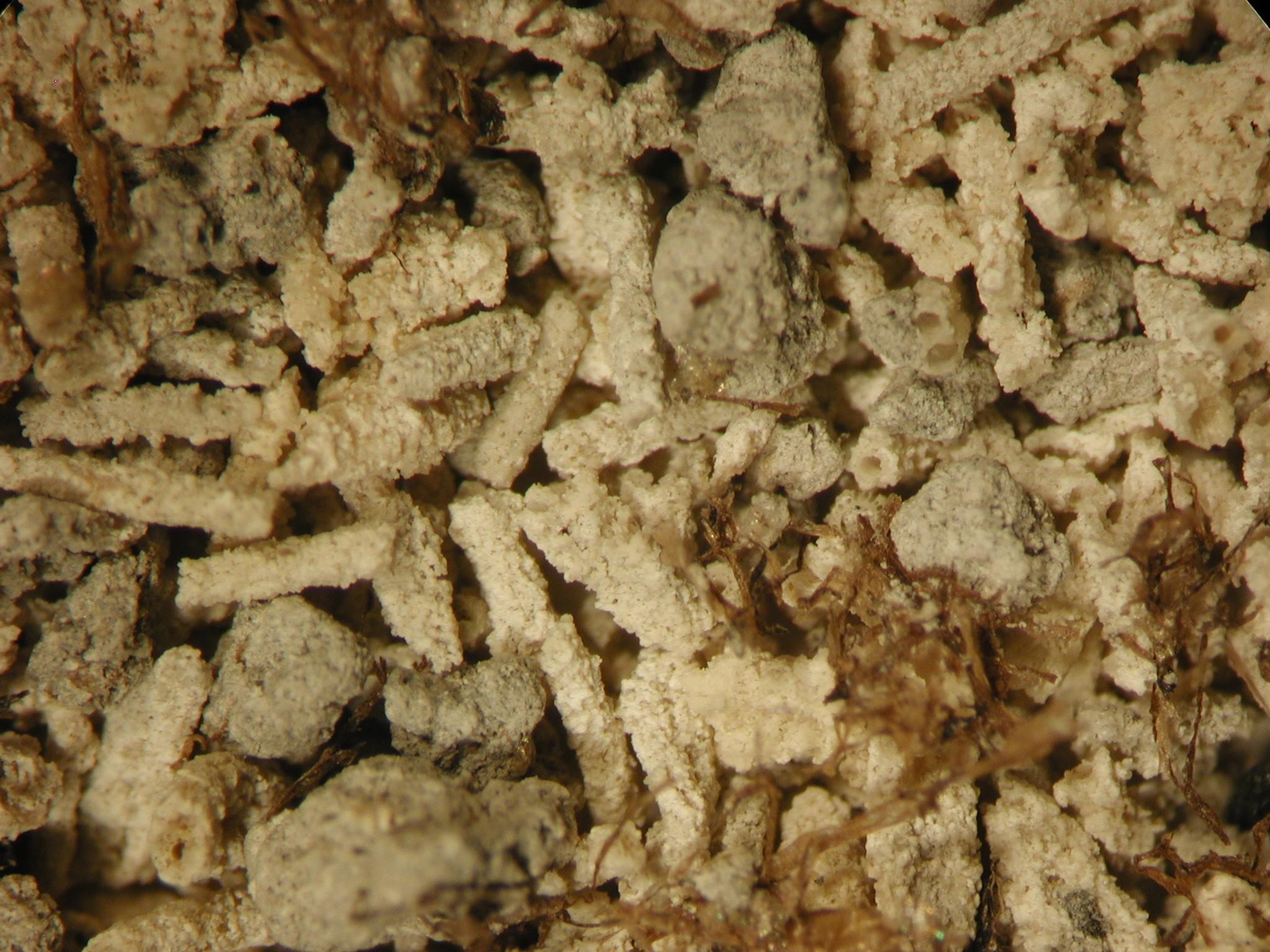 Washed residu from a sample of a Holocene freshwater tufa deposit at Ronde Hoep south of Amsterdam; grey particles is amorphous calcium carbonate, light coloured tubes are stems of Characeae with calcareous concretionary deposit on the surface; remains of mosses